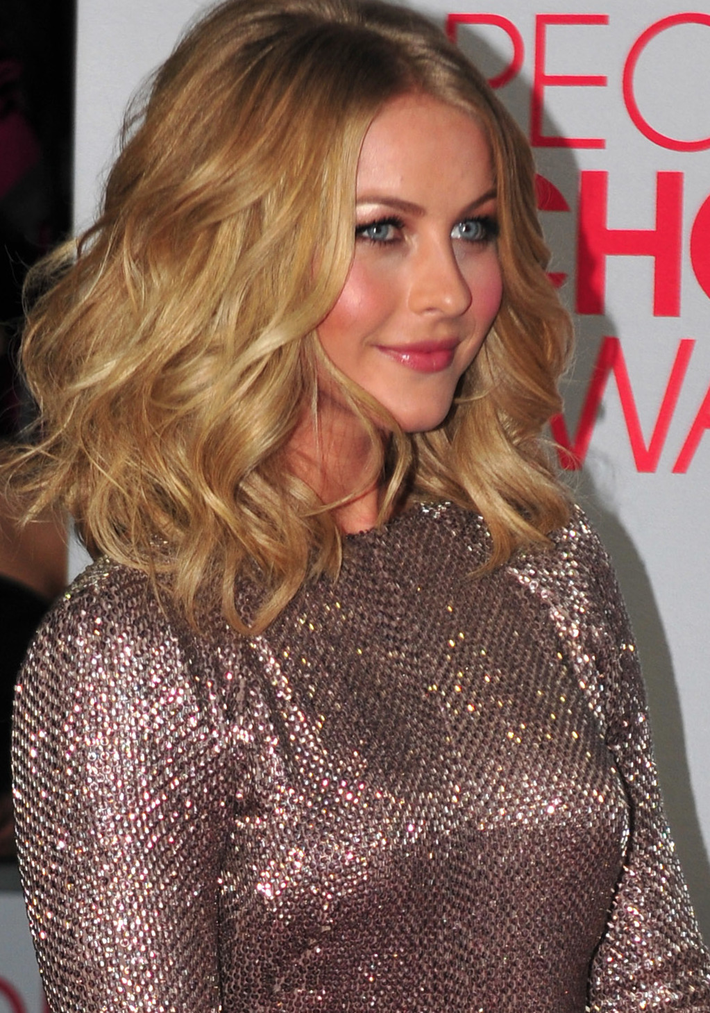 Julianne Hough on the red carpet at the 38th People's Choice Awards on January 11, 2012, at the Nokia Theatre in Los Angeles, California. (JJ Duncan/ )